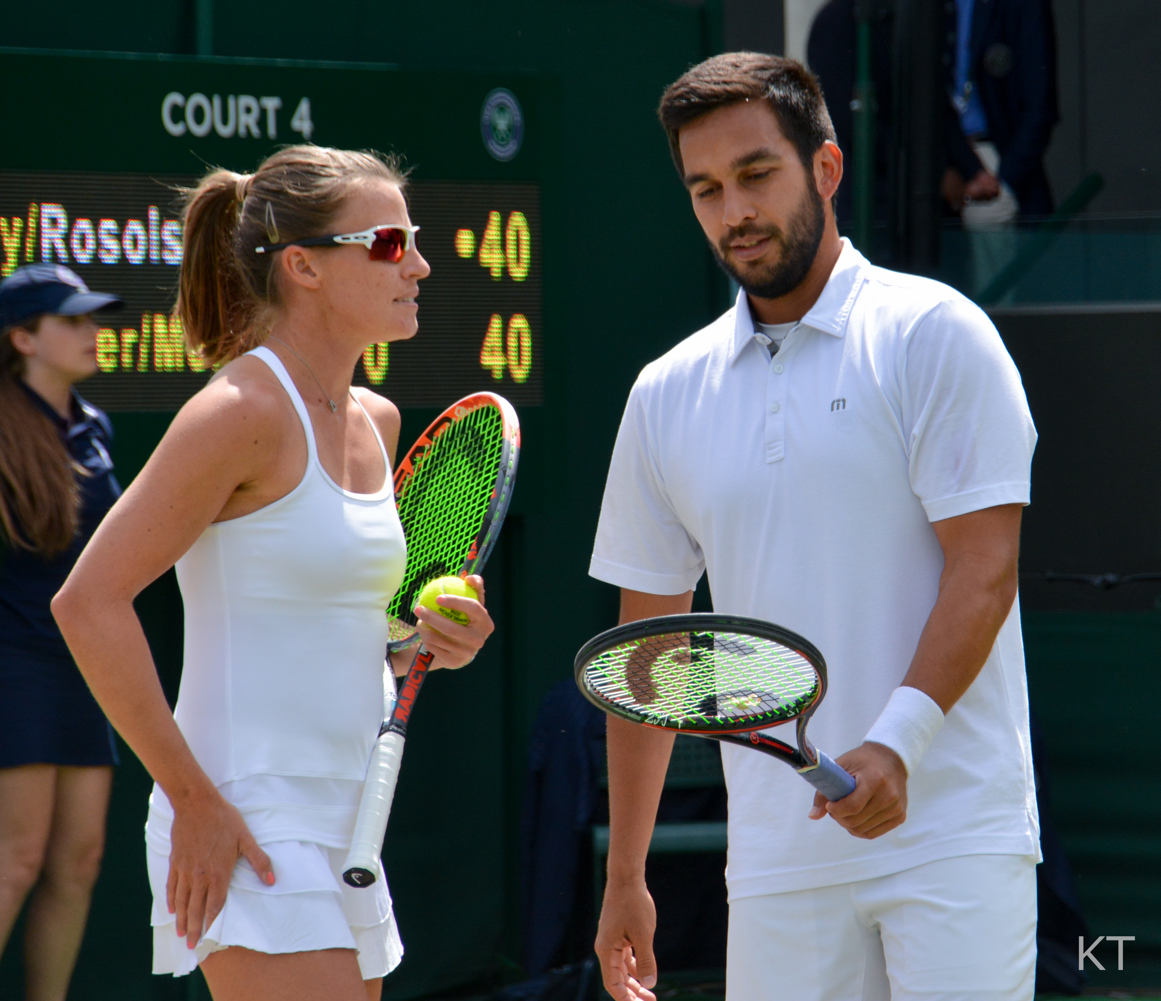 Middle Sunday of Wimbledon 2016.